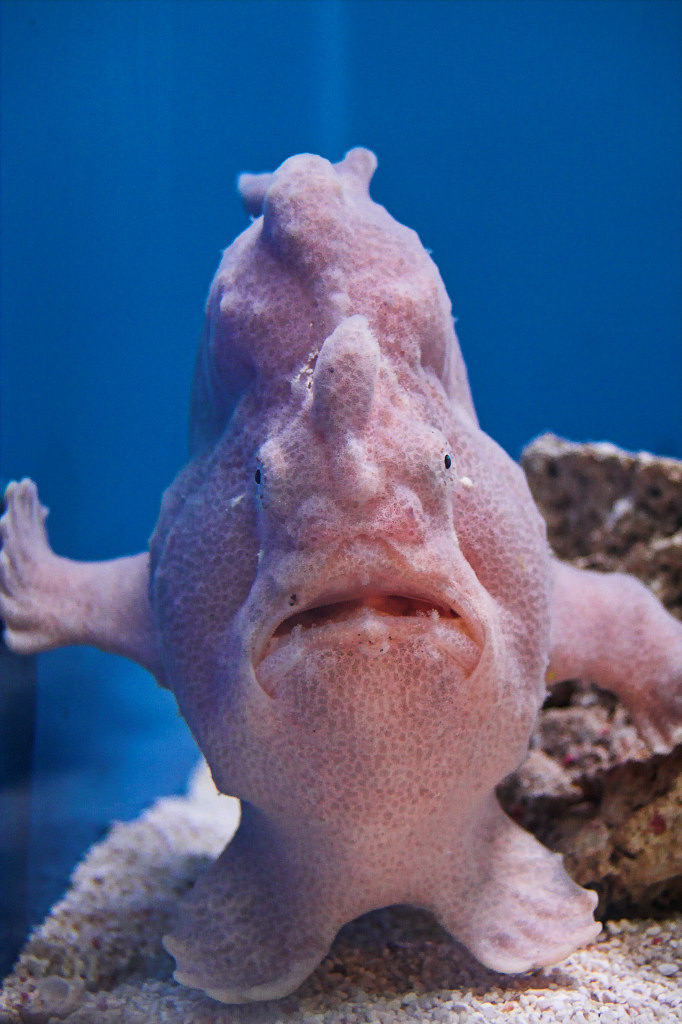 Antennarius commersonThis is a fish.